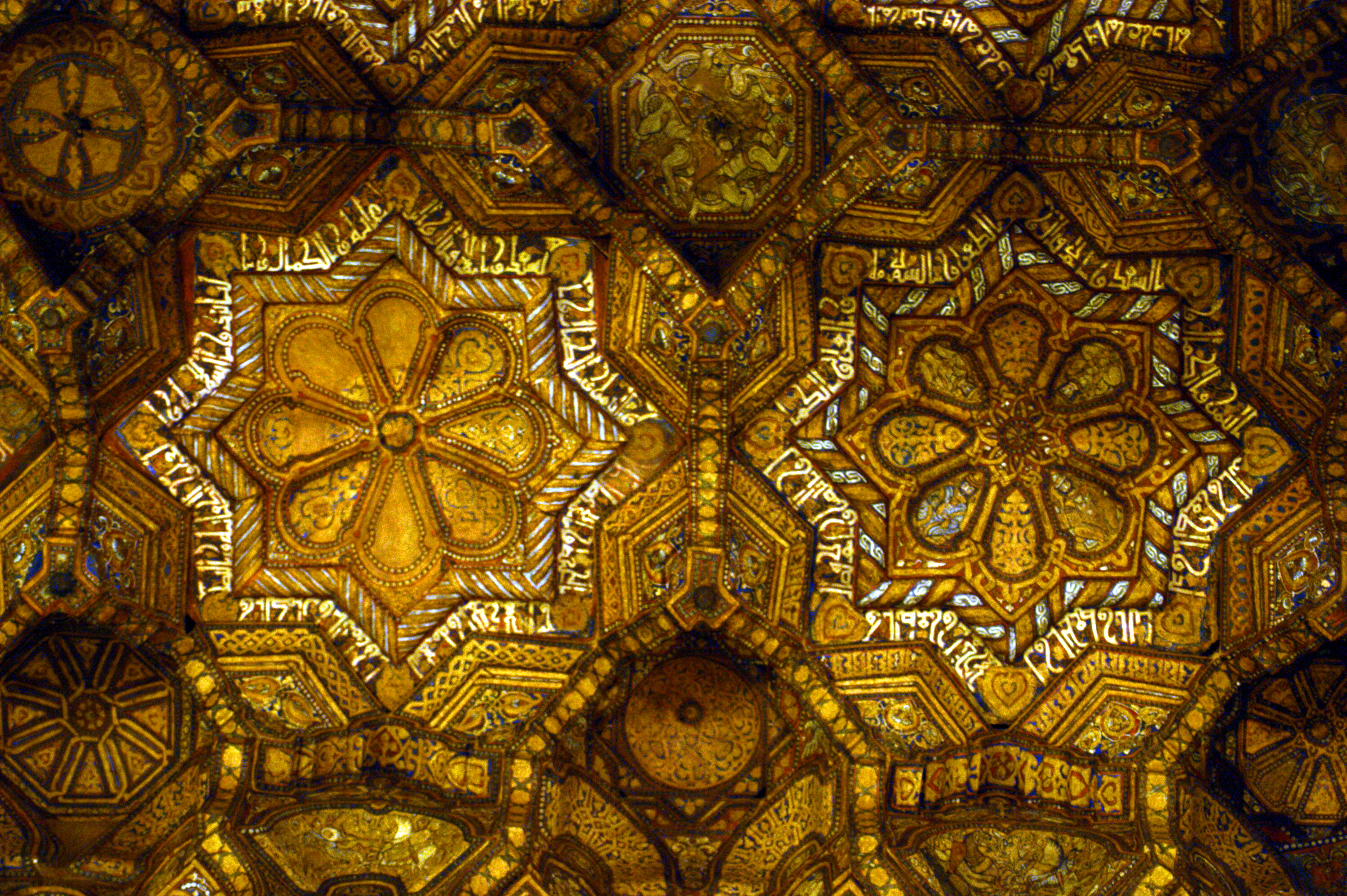 Palermo, Palatine Chapel, Detail of the Ceiling